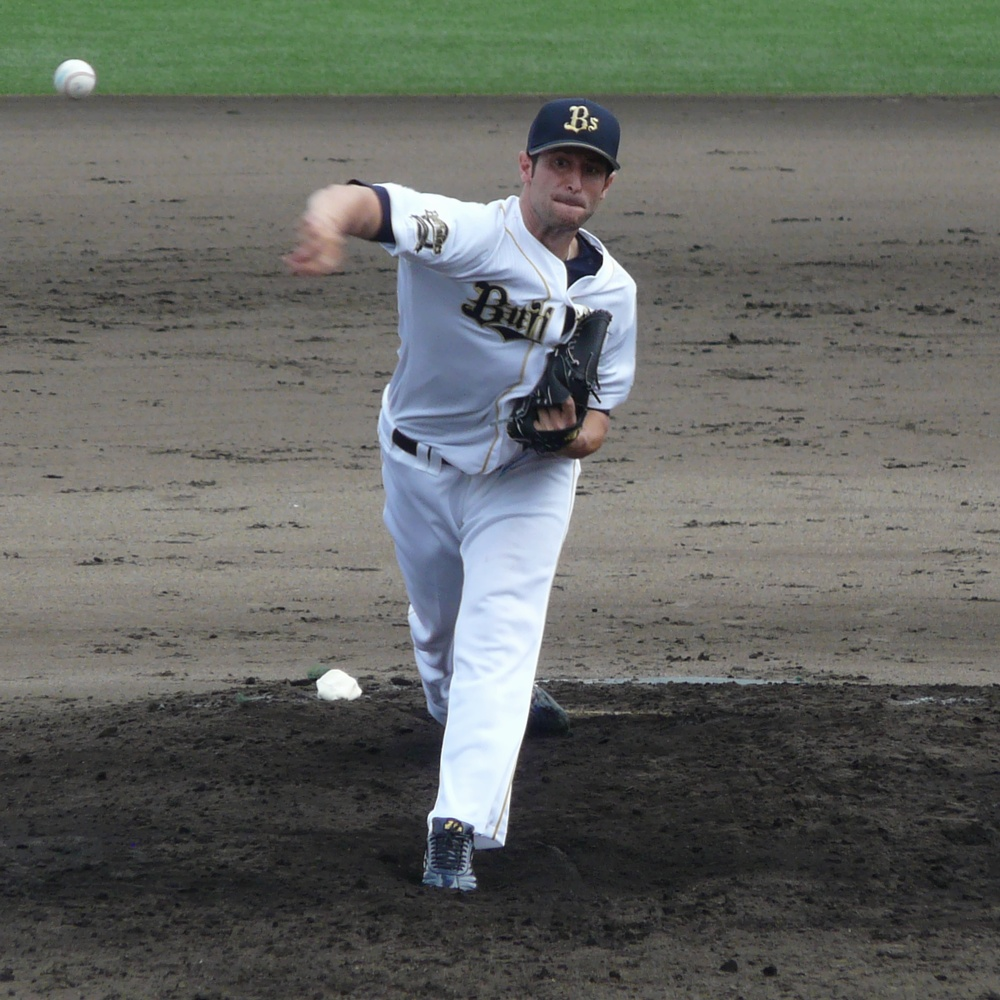 Alessandro Maestri, pitcher of the Orix Buffaloes, at Kobe Sports Park Sub Baseball Ground.